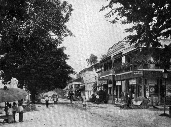 Strand Road, Prome (now Pyay)